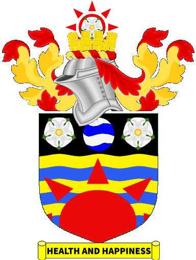 The armorial achievement of the town and civil parish of Hornsea, East Riding of Yorkshire